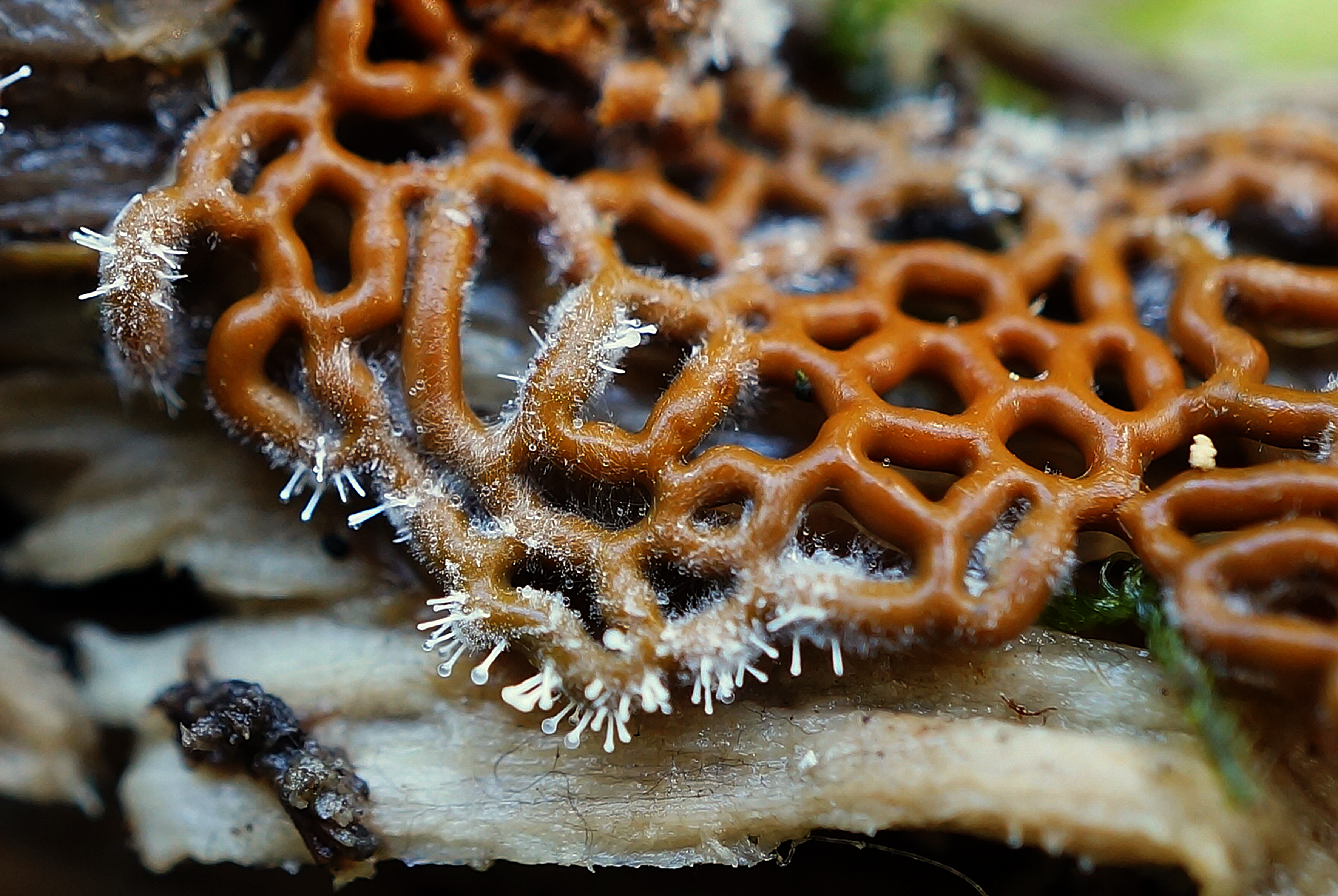 Sporocarps of Hemitrichia serpula affected by superparasitic fungus Polycephalomyces spp.